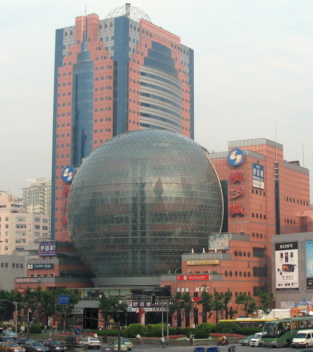 Cropped version of File:Xujiahui 2007.jpg by WiNG